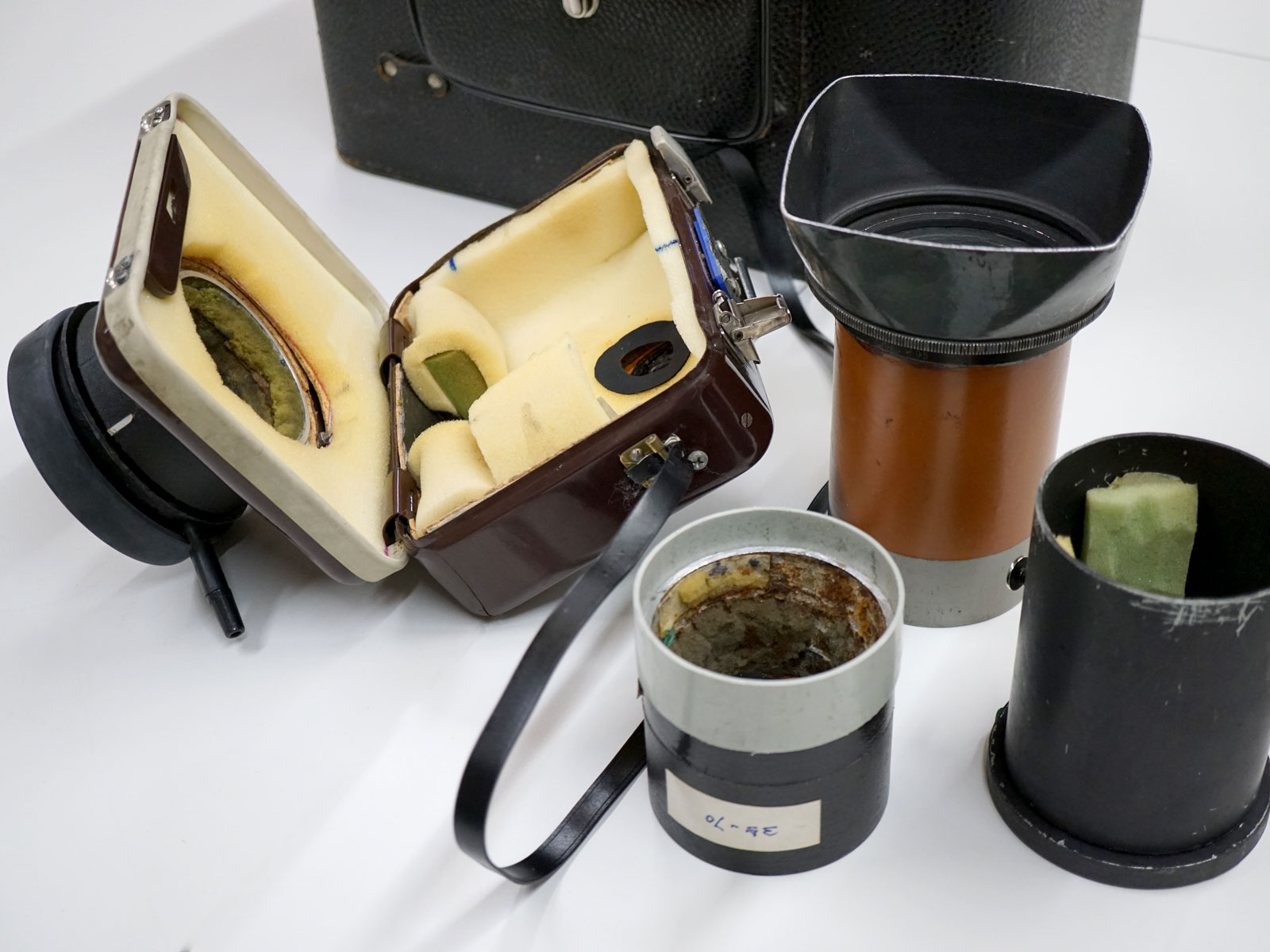 Interior of the Blimp and objectives used by Frederic Gómez Grau. It was made by him by hand and used in films where he participated as a still photographer.